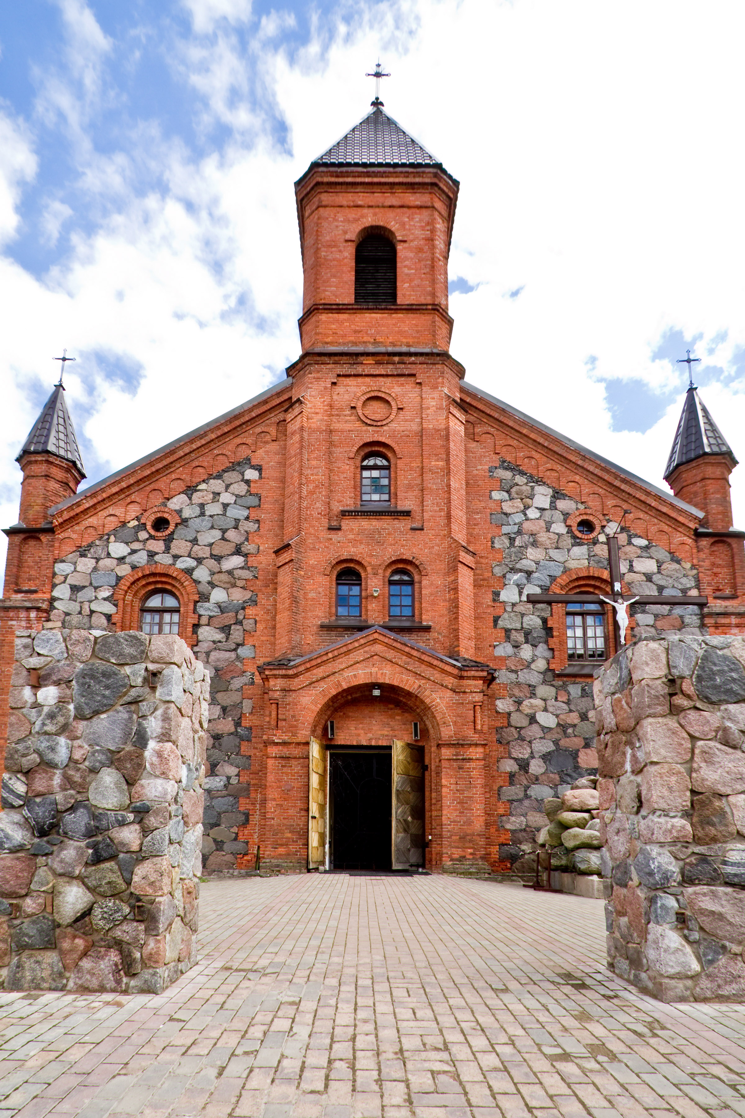 Catholic church of Virgin Mary, Brasłaŭ. Viciebsk province, Belarus.